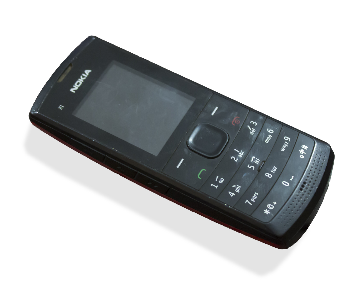 A well-used Nokia X1-01 cell phone